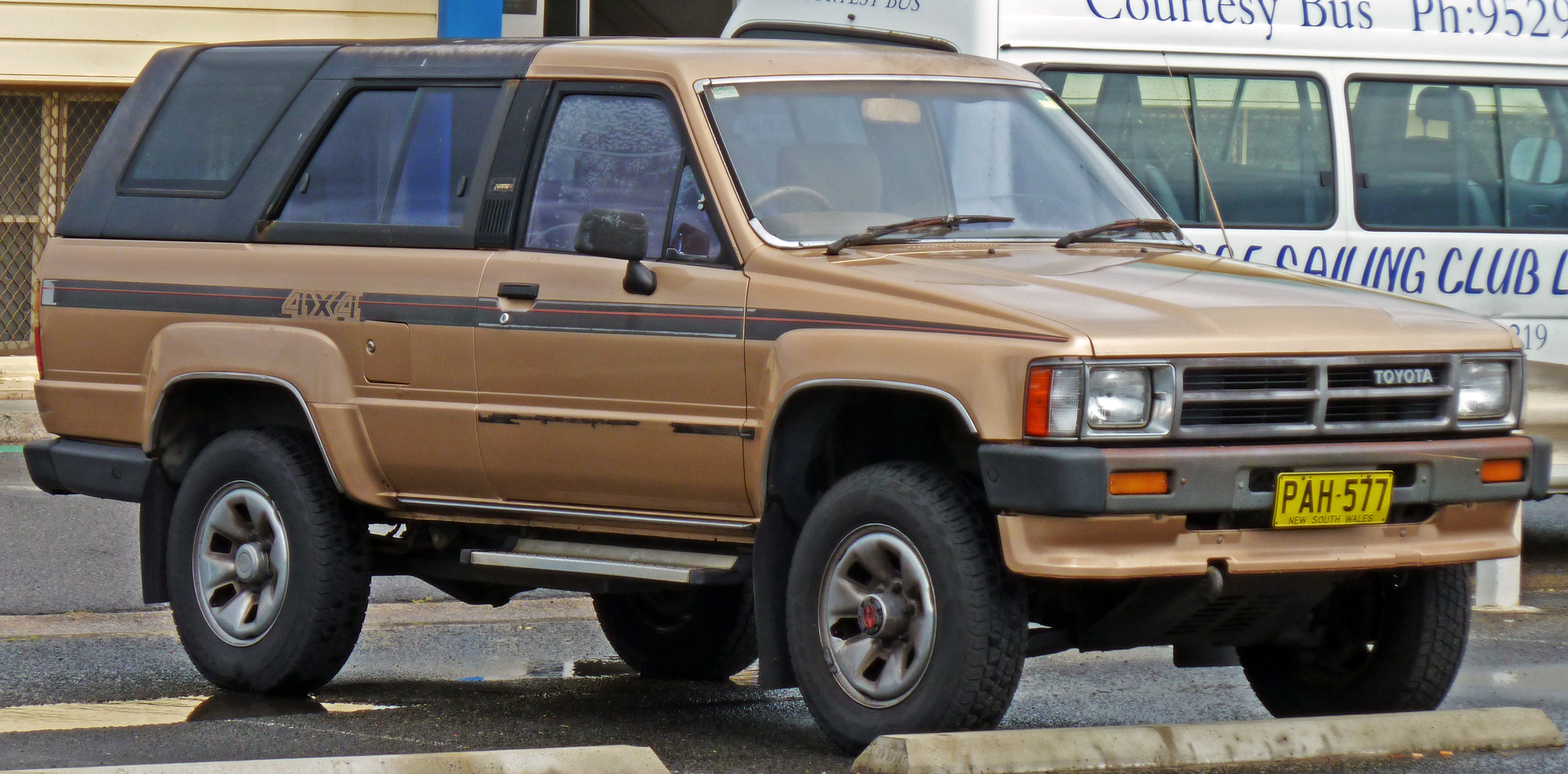 1988 Toyota Hilux 4Runner SR5 wagon. Photographed in Sans Souci, New South Wales, Australia.